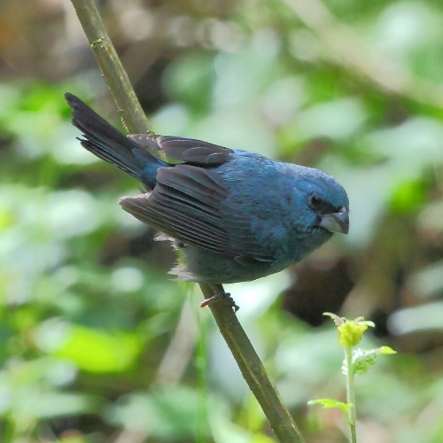 Glaucous-blue Grosbeak (male) at Intervales State Park - SP - Brazil